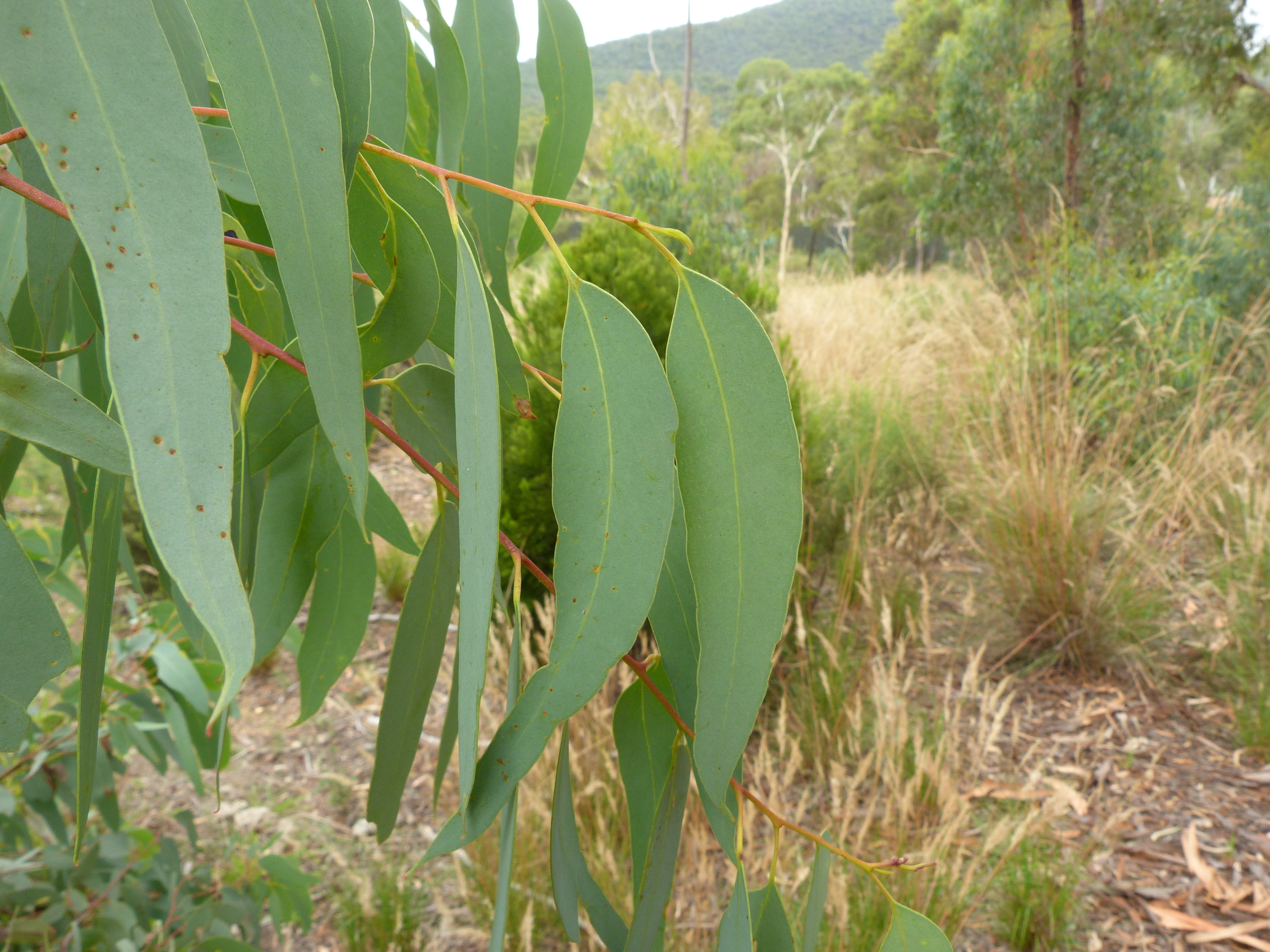 Eucalyptus rossii R. Baker & H.G. Smith, Aranda, ACT, 19 January 2011